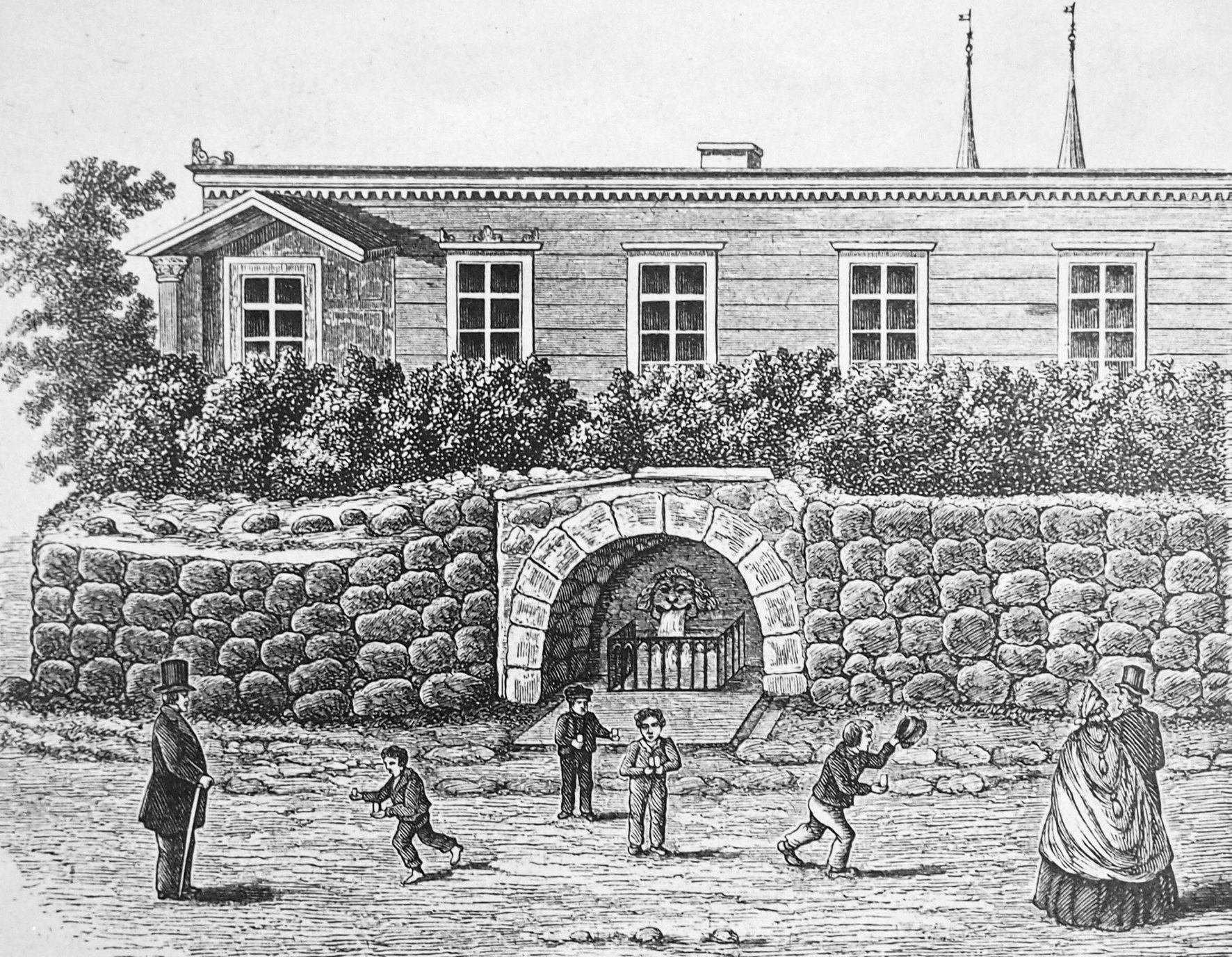 The then new grotto at Maglekilde in Roskilde, Denmark.